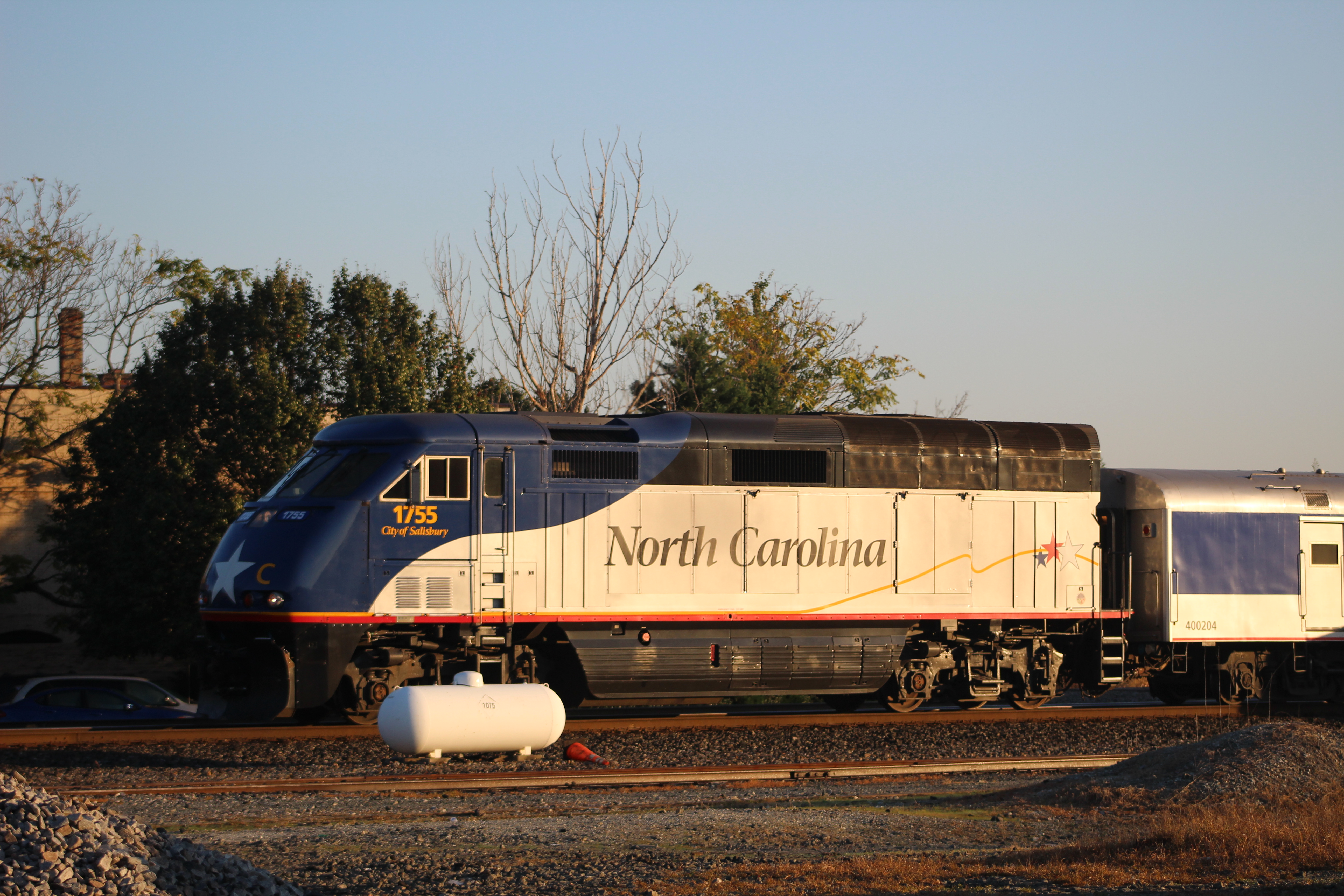 F59PHI the City of Salisbury at Greensboro on the Piedmont.